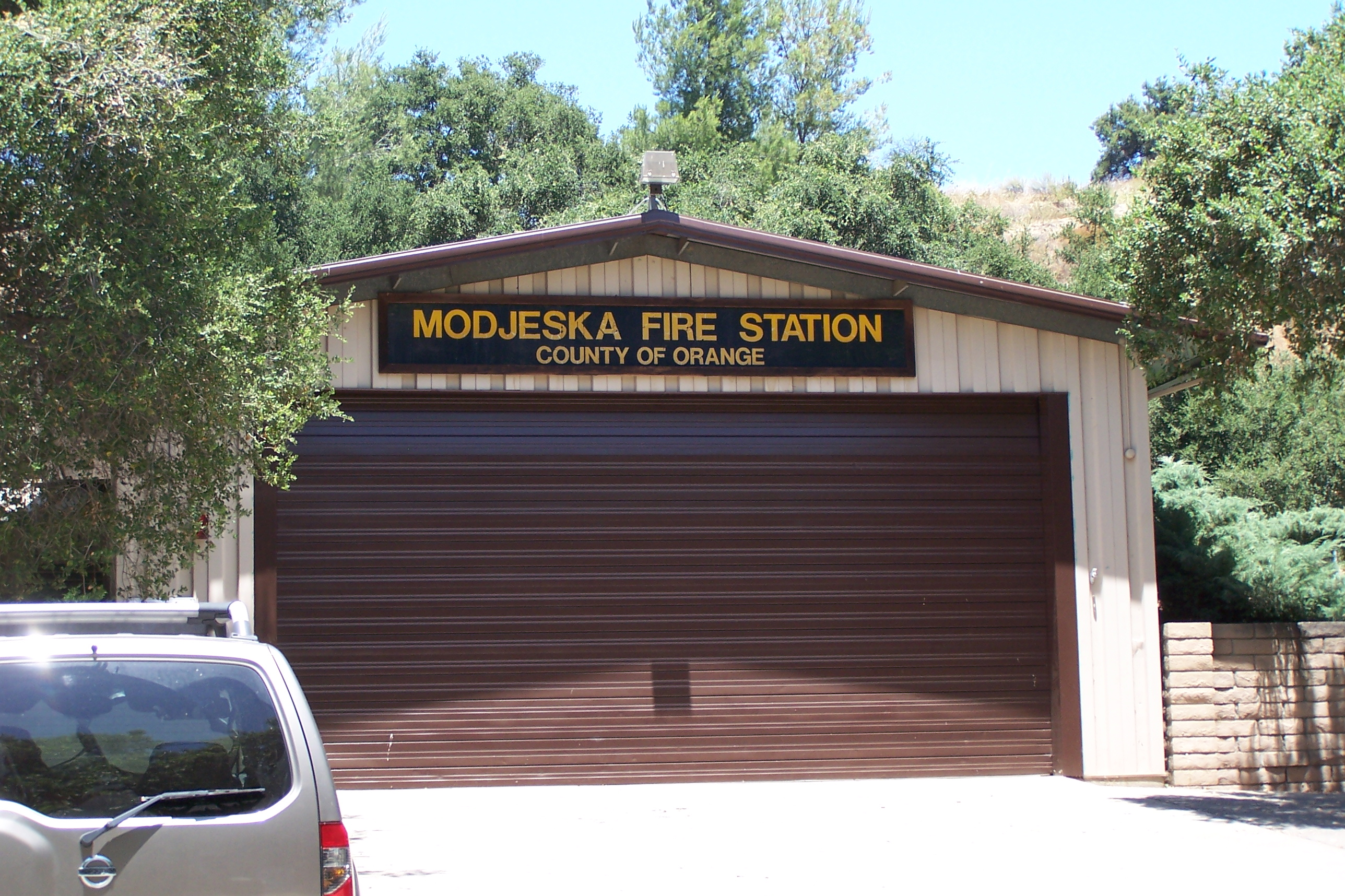 The Modjeska fire house, where they host Halloween parties, fourth of July parties, and other fun local events